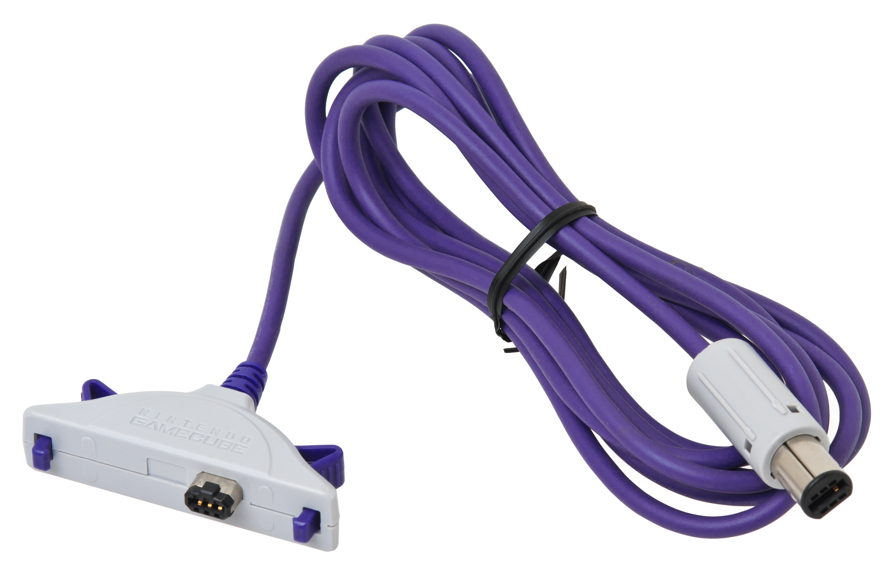 A Game Boy Advance link cable, used for connecting a GBA to the Nintendo GameCube console. Very few games actually implemented this accessory.